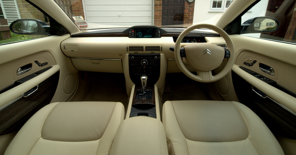 Citroën C6 Interior with Wadibis Vitelli leather